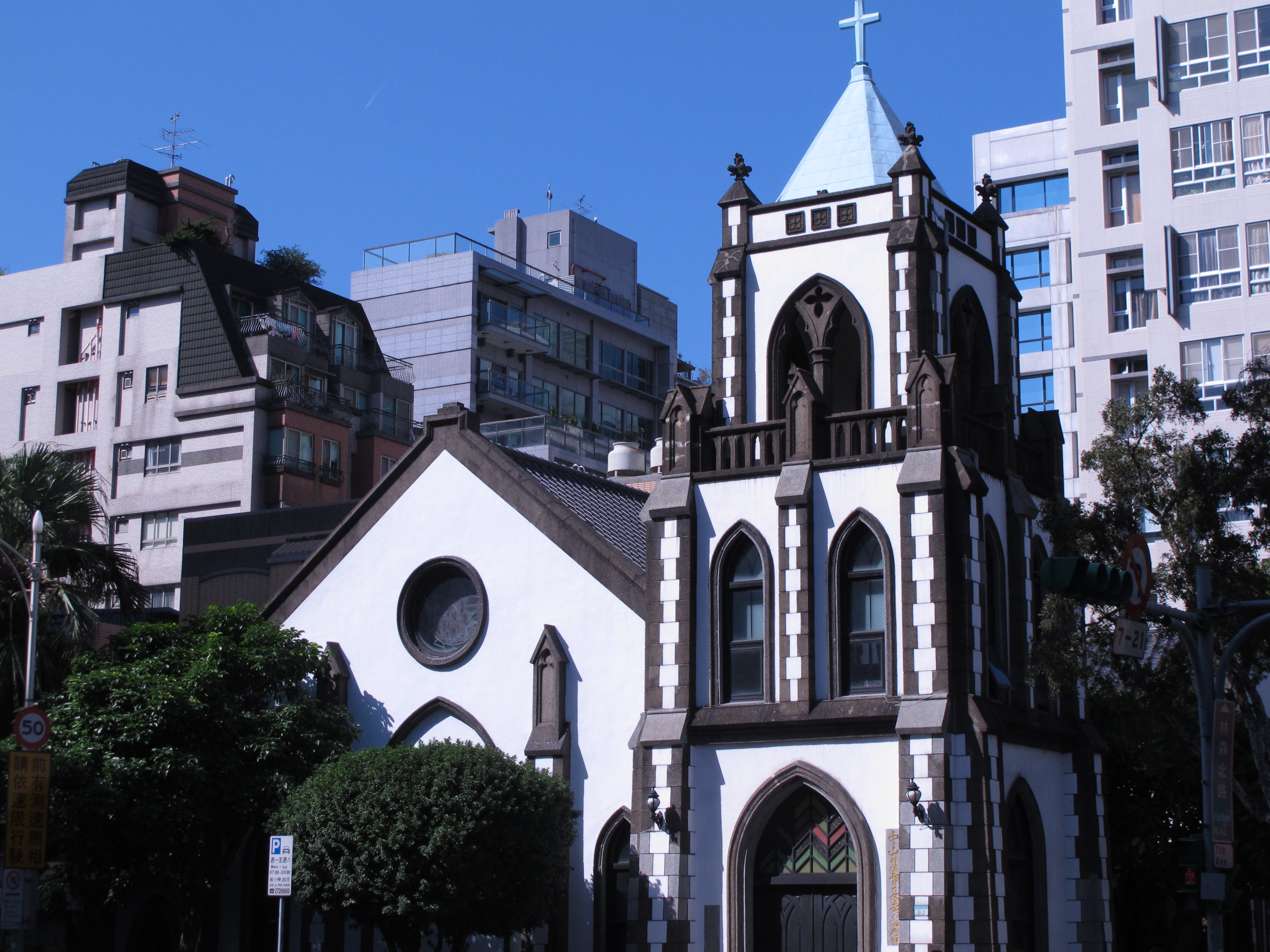 Taipei Chung-Shan Presbyterian Church(original Taipei Sei-Ko-Kai Taishōchō Church, in the Province of Anglican Episcopal Church in Japan).